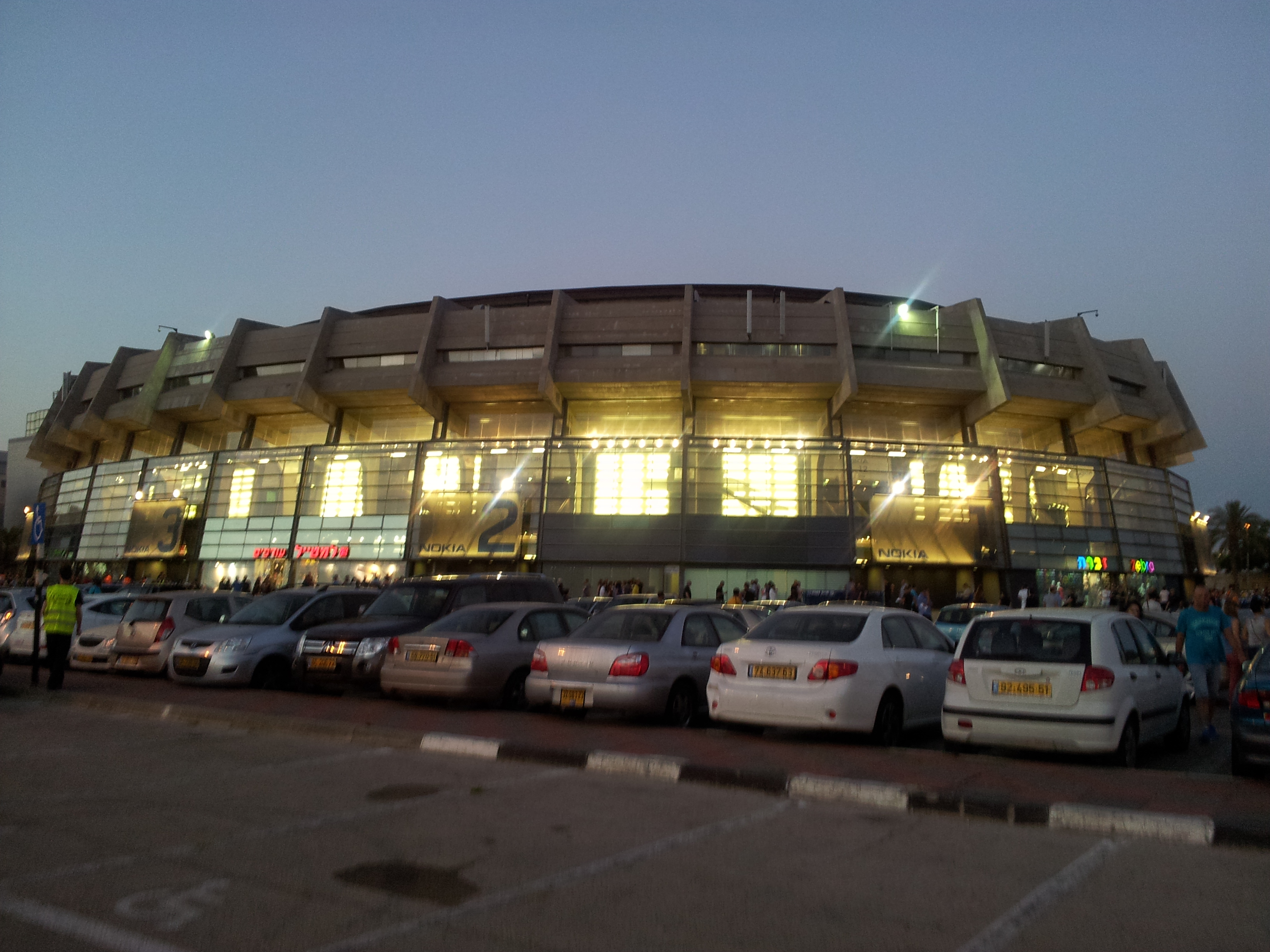 Nokia Arena